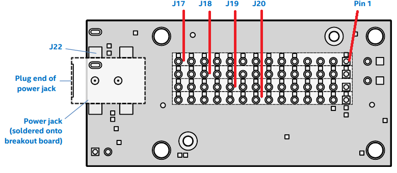 Intel Edison BreakoutBoard pinout